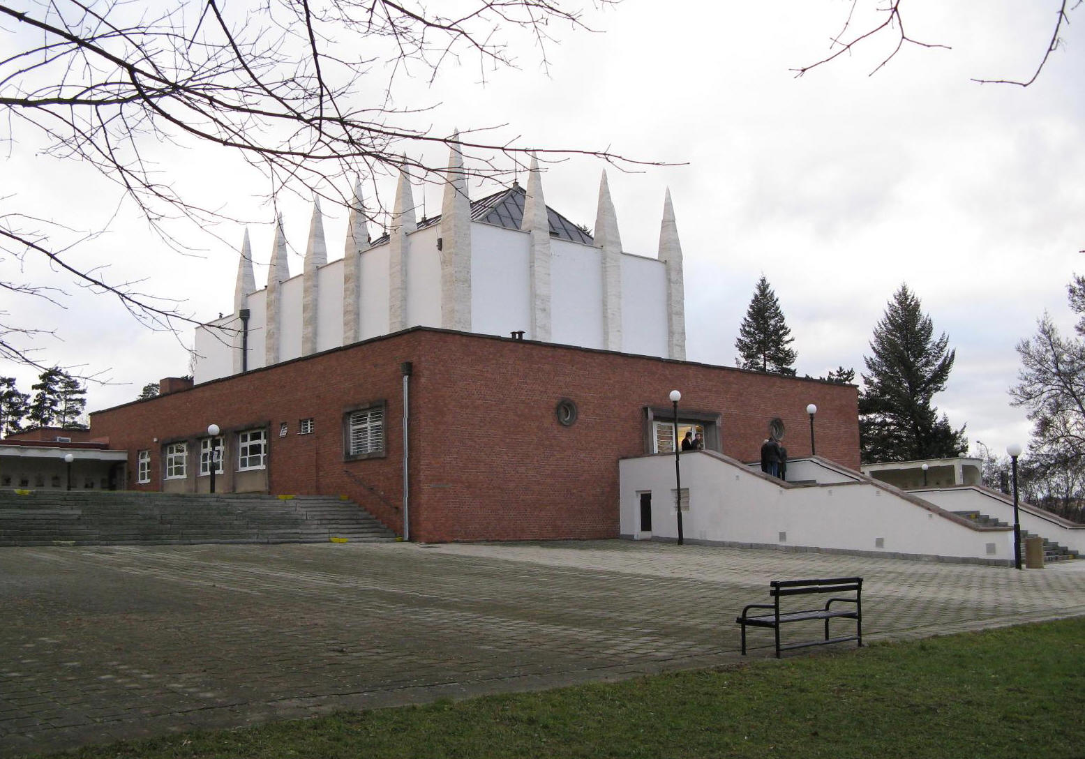 crematorium at the Central Cemetery, Brno